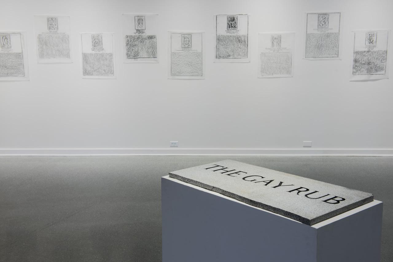 A selection of rubbings from the Gay Rub collection of historically significant LGBTQ markers